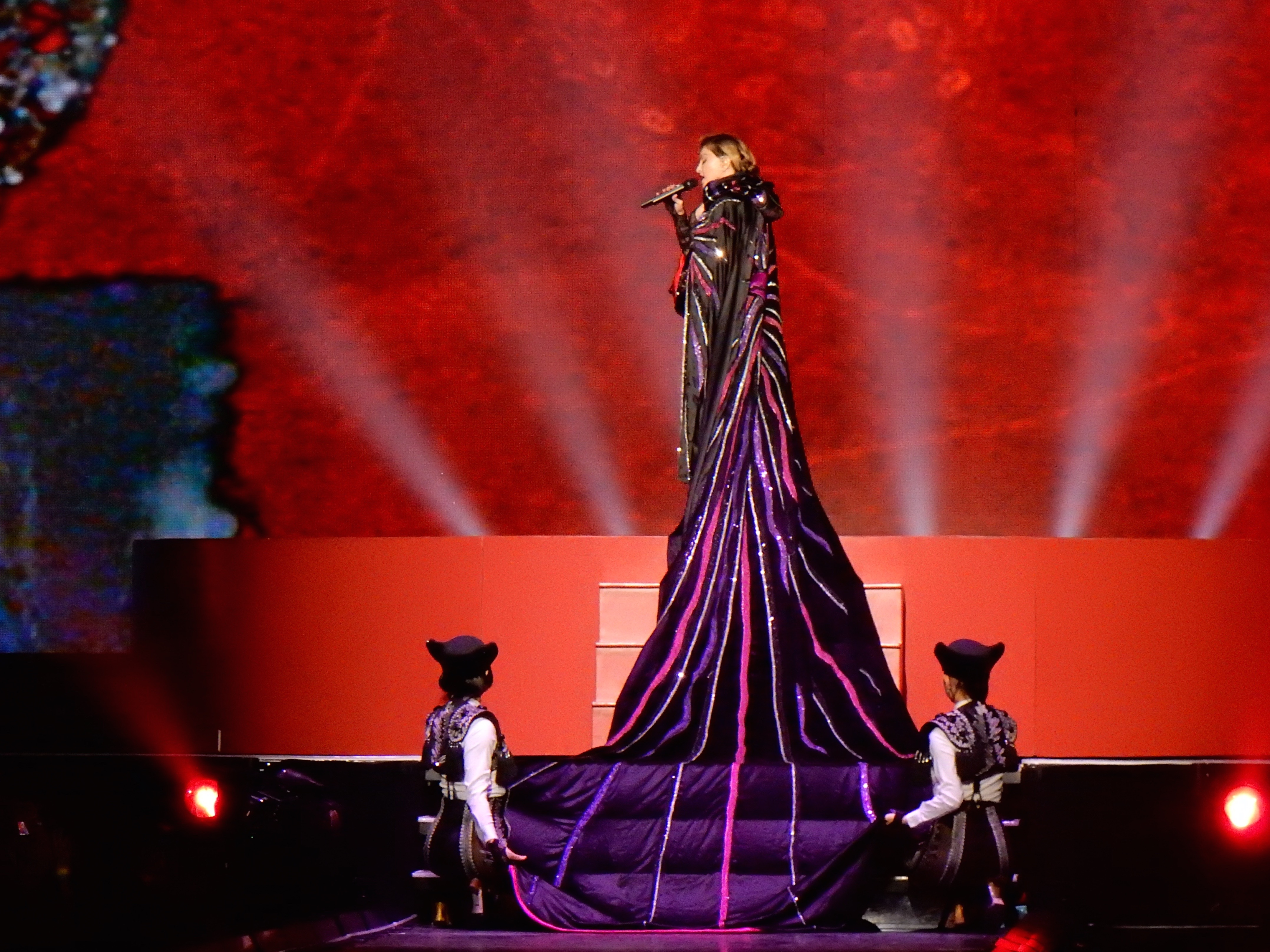 Madonna - Rebel Heart Tour 2015 - Paris 2